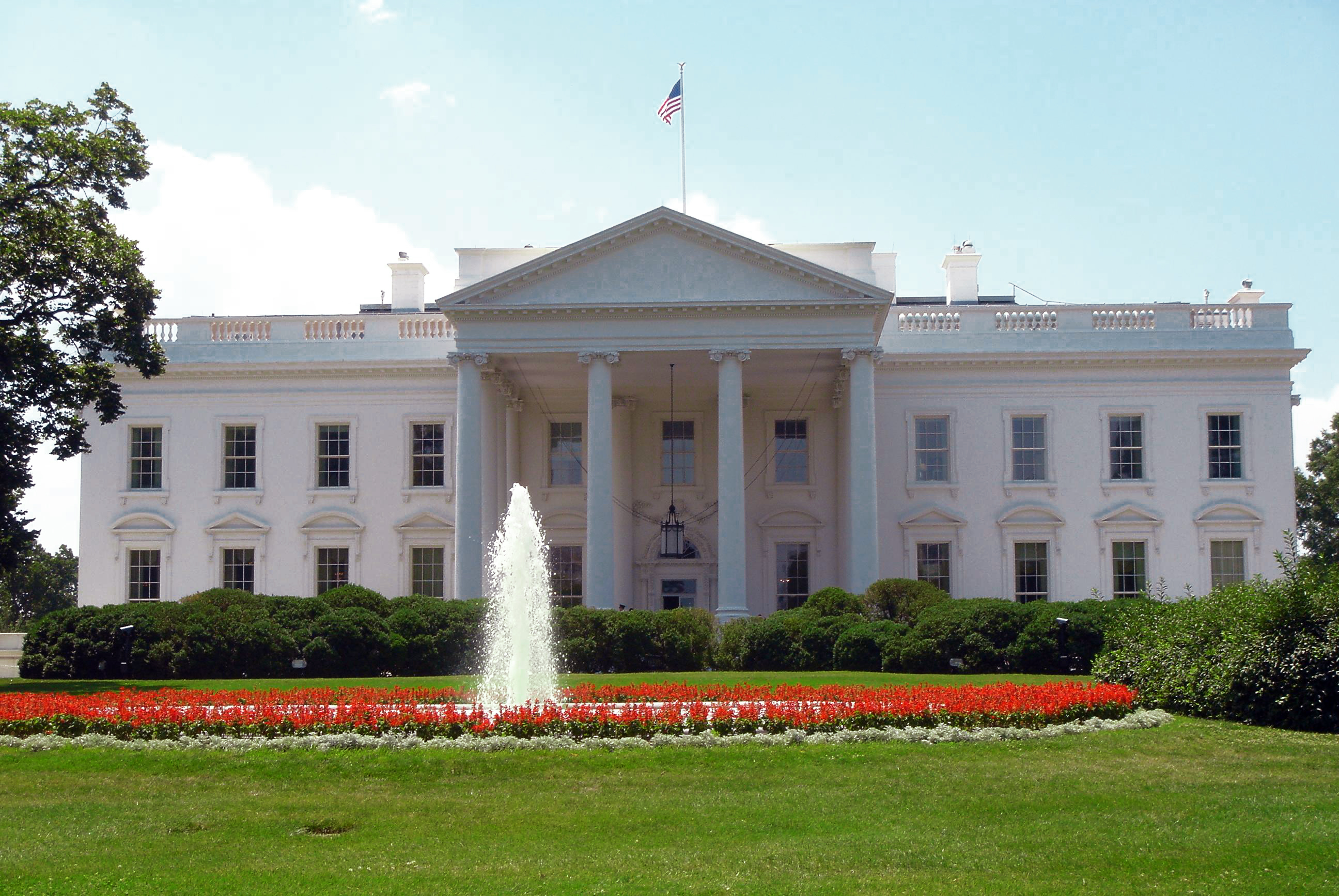 The North façade of the White House, completed in 1824, located on 1600 Pennsylvania Avenue NW in Washington, D.C.